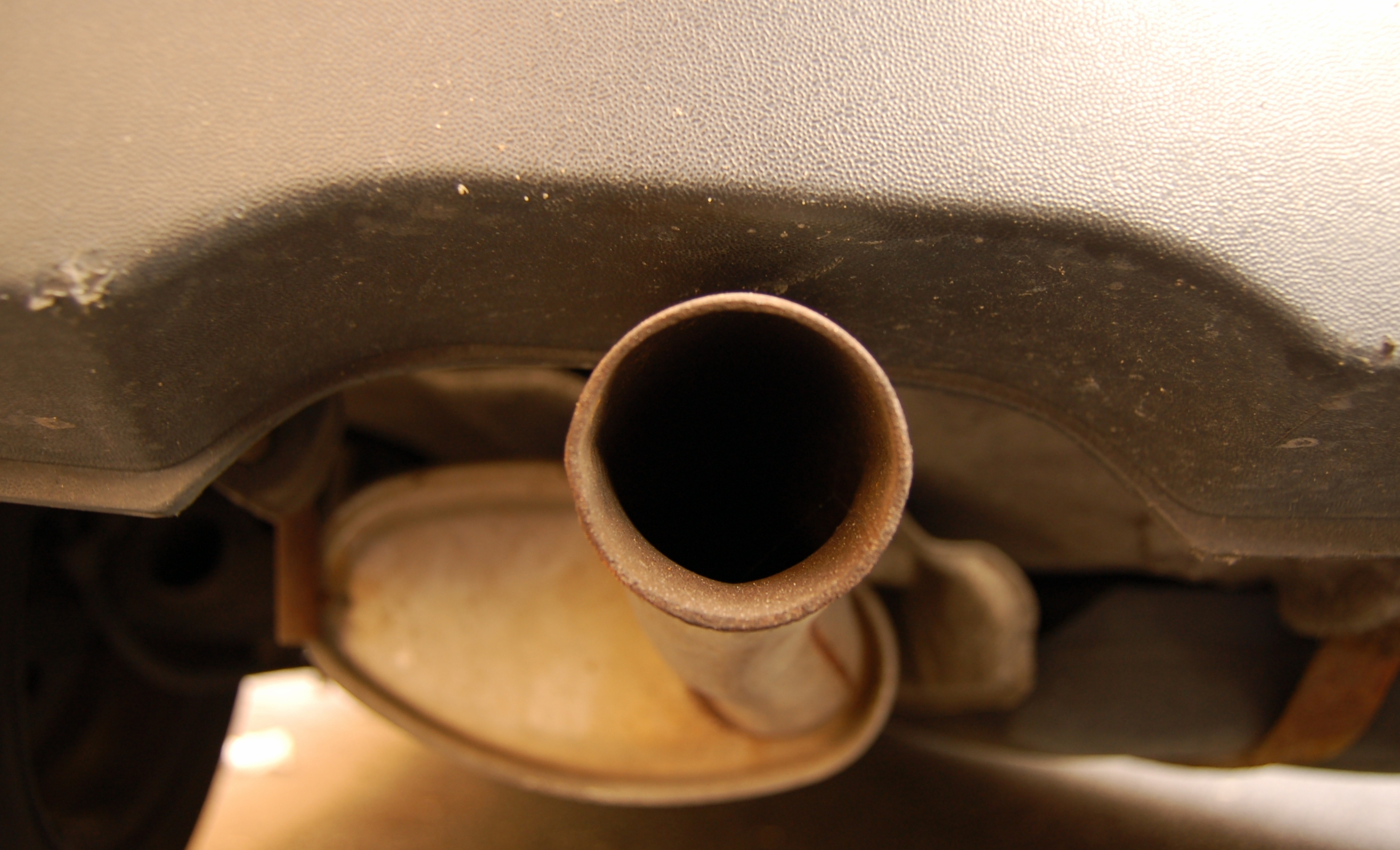 Exhaust pipe of a car